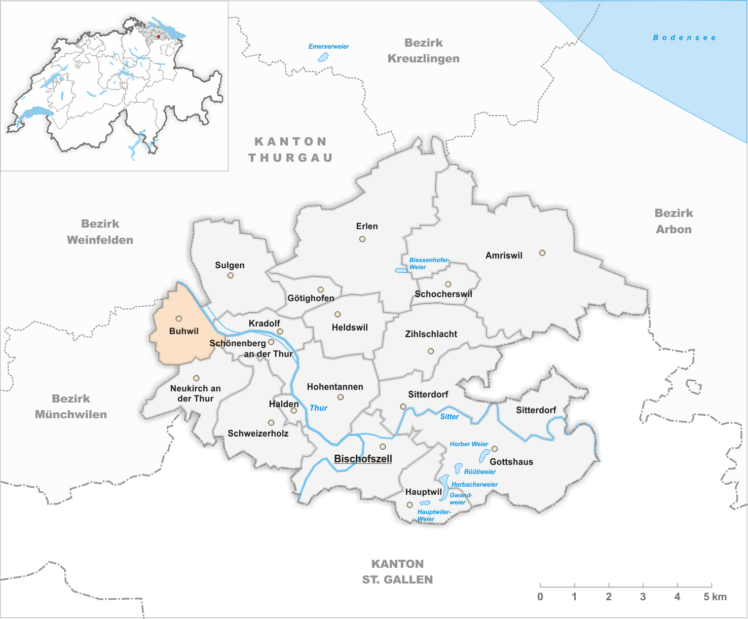 Municipality Buhwil